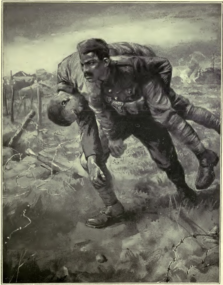 Brave Gurkha Saves the Life of British Soldier.